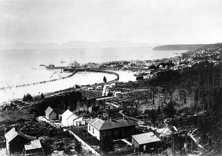 Original photographer unknown. Looking northwest from Beacon Hill at S. Dearborn St. and 12th Ave. S. Yesler Mill and wharf with other mills are shown on the end of the peninsula. The trestle of the Columbia and Puget Sound Railroad crosses the center of scene to the coal bunkers. Subjects (LCTGM): Cities & towns--Washington (State); Harbors--Washington (State)--Seattle Subjects (LCSH): Seattle (Wash.)